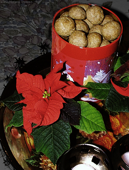 Pebernødder, danish cookies for Christmas. Pebernødder is used as currency in many traditional Christmas games.